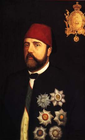 Portrait of Ismail Pasha (1830-1895)